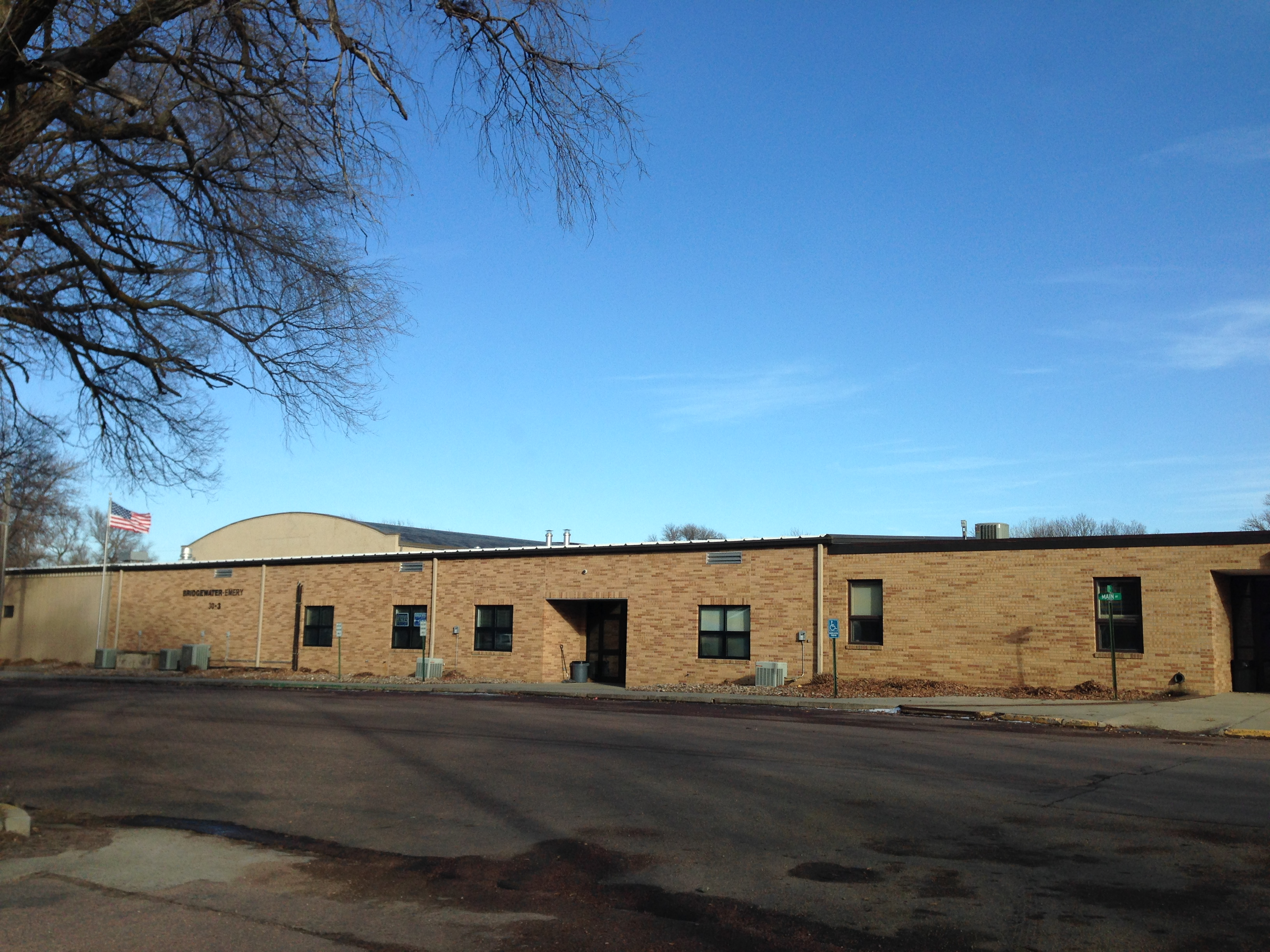 Near 5th and Main, Bridgewater SD